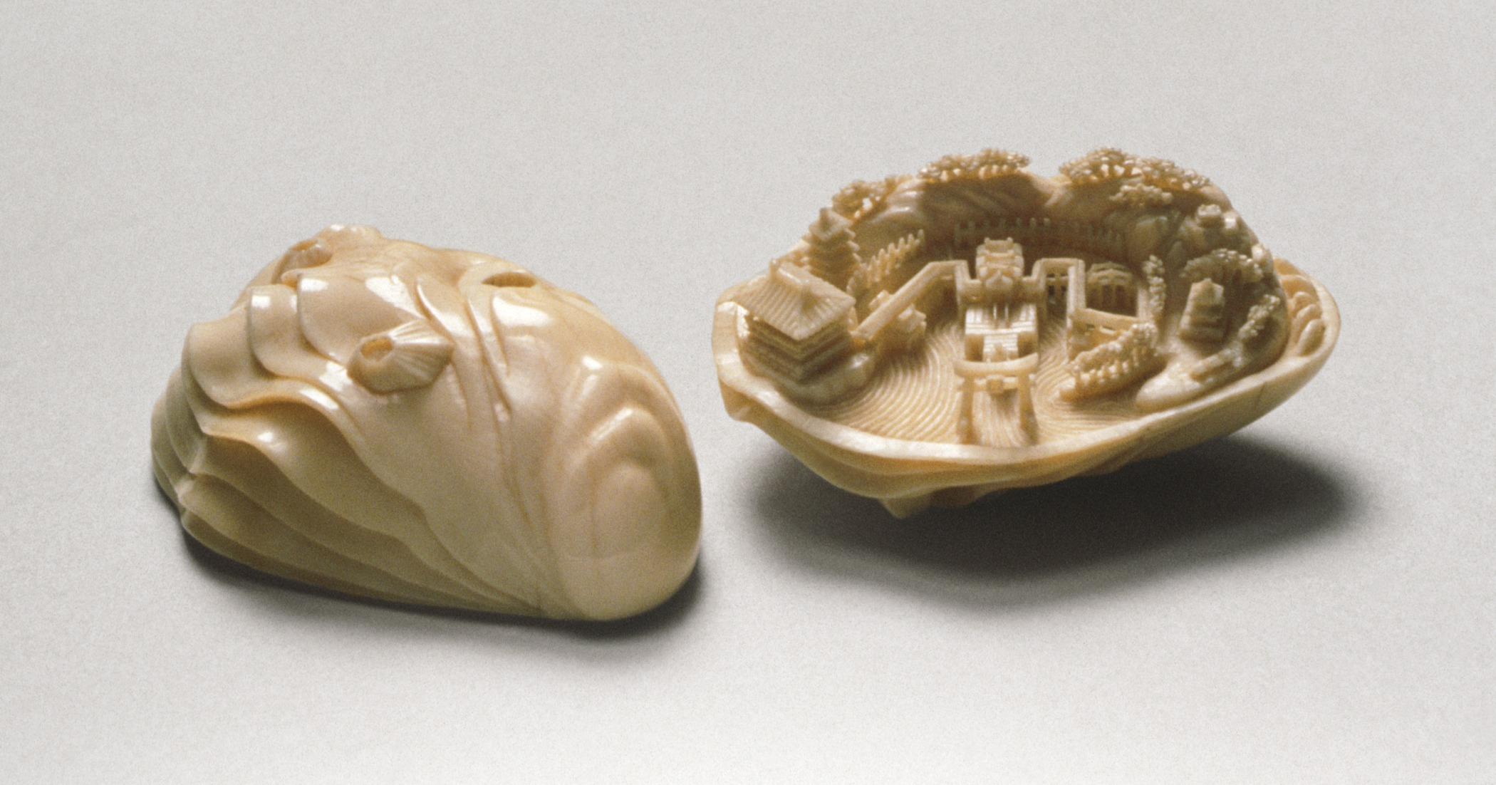 Japan, mid- to late 19th century Costumes; Accessories Ivory 1 3/4 x 1 3/16 x 1 1/16 in. (4.4 x 3.0 x 2.7 cm) Raymond and Frances Bushell Collection (M.91.250.220a-c) Japanese Art